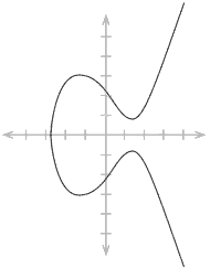 A no-frills picture of a nonsingular elliptic curve.